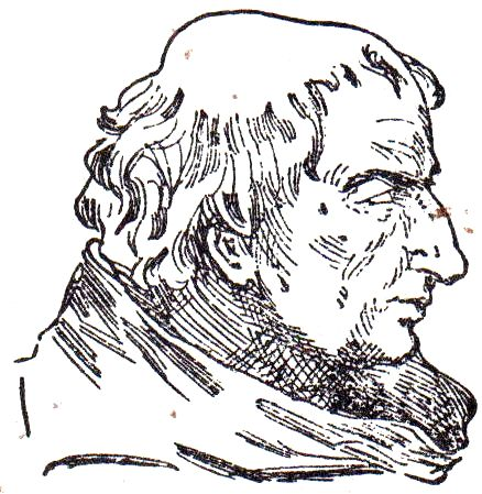 Johann Hans Jung (1425 Zürich – 1505 Augsburg) was a German doctor & professor